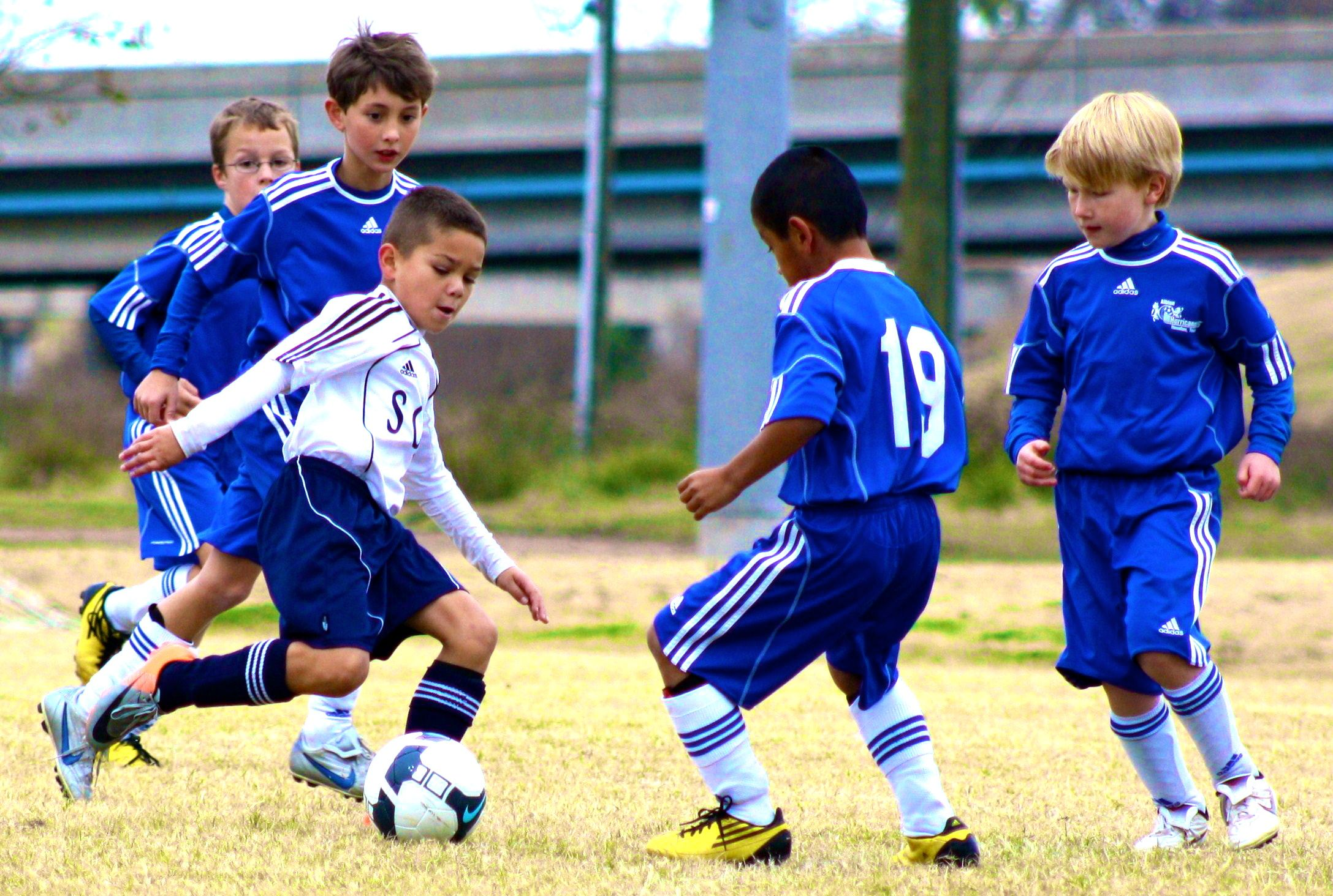 Caleb Mendez, youth soccer talent